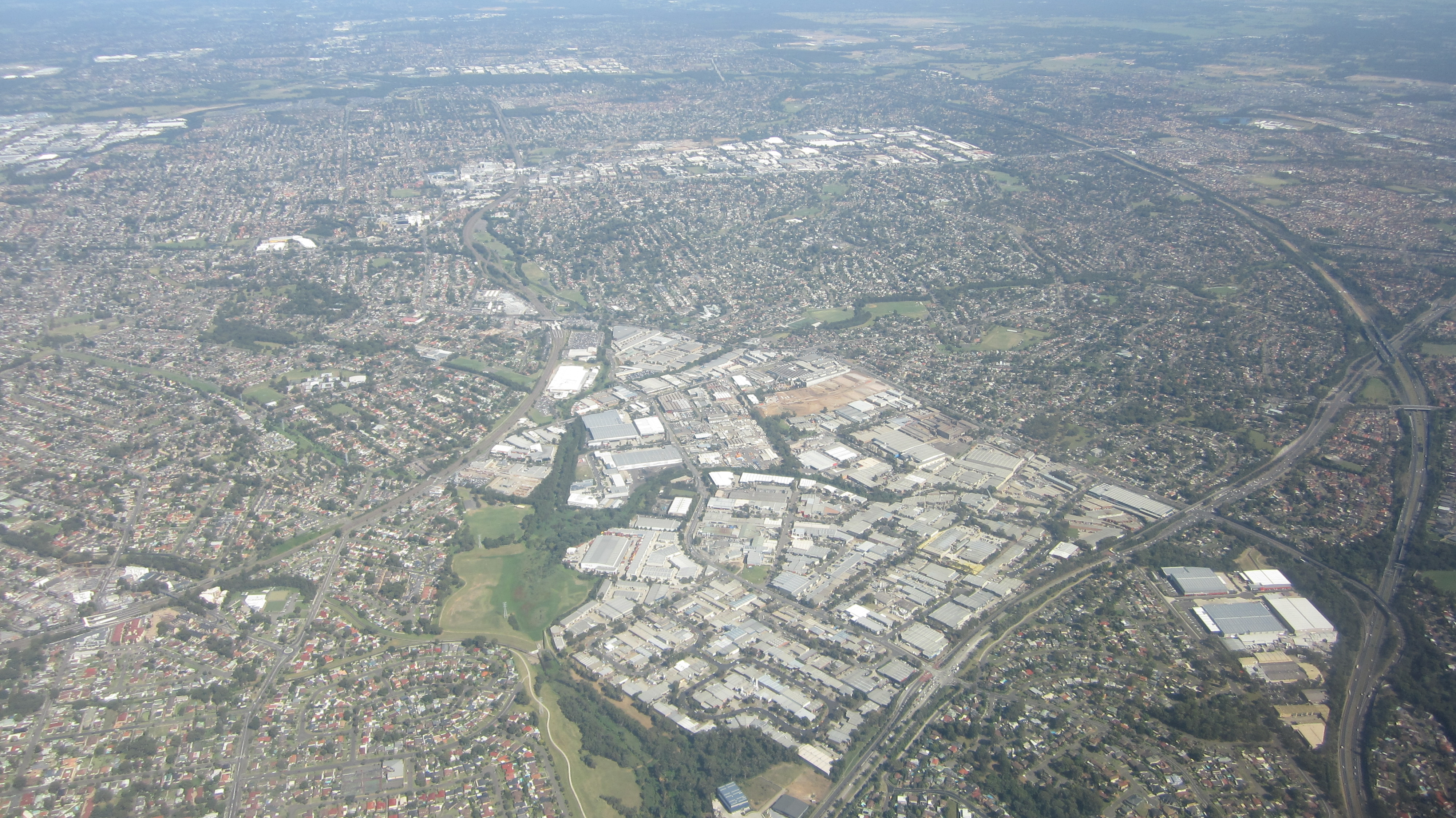 Aerial view of Acacia Gardens, Blacktown, Doonside, Kings Langley, Kings Park, Marayong, Quakers Hill, Seven Hills and Woodcroft.